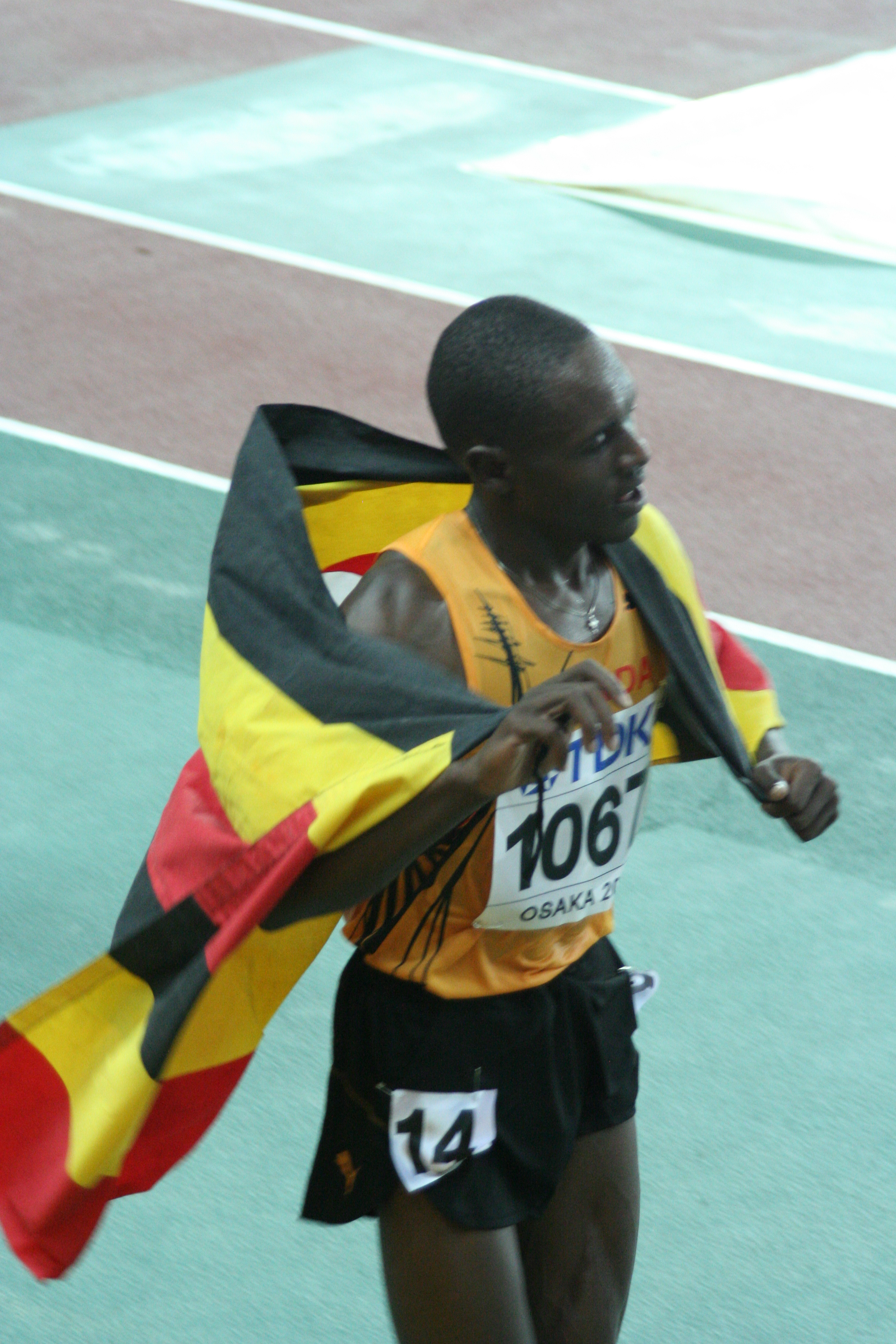 World Athletics Championships 2007 in Osaka - Moses Kipsiro, Uganda, celebrates his third place over 5000 metres